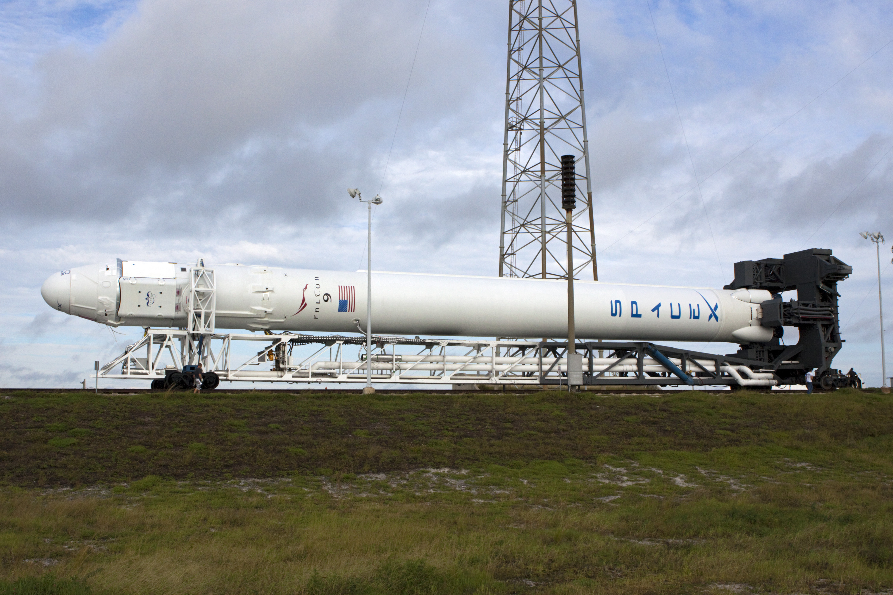 CAPE CANAVERAL, Fla. -- The Space Exploration Technologies Corp., or SpaceX, Falcon 9 rocket with Dragon capsule attached on top begins a rollout demonstration test to Space Launch Complex-40 at Cape Canaveral Air Force Station in Florida. Preparations continue for NASA’s first Commercial Resupply Services, or CRS-1, mission to the International Space Station. The rollout to the pad for liftoff is planned for Sunday morning, Oct. 7. Liftoff from CCAFS is scheduled during an instantaneous window at 8:35 p.m. EDT Sunday evening. SpaceX CRS-1 is an important step toward making America’s microgravity research program self-sufficient by providing a way to deliver and return significant amounts of cargo, including science experiments, to and from the orbiting laboratory.